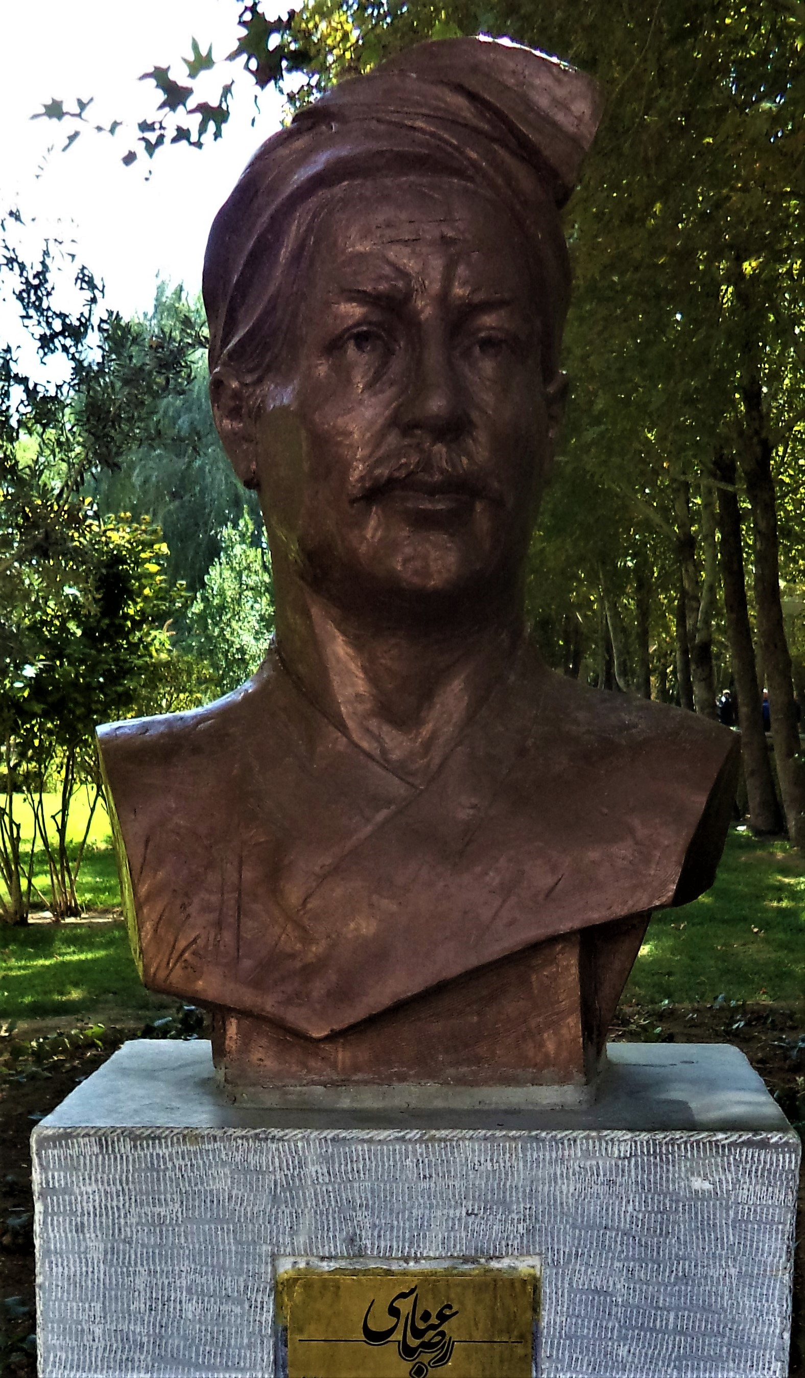 Head Statue of Reza Abbasi- (1565-1635)- (972-1044 A.H.)